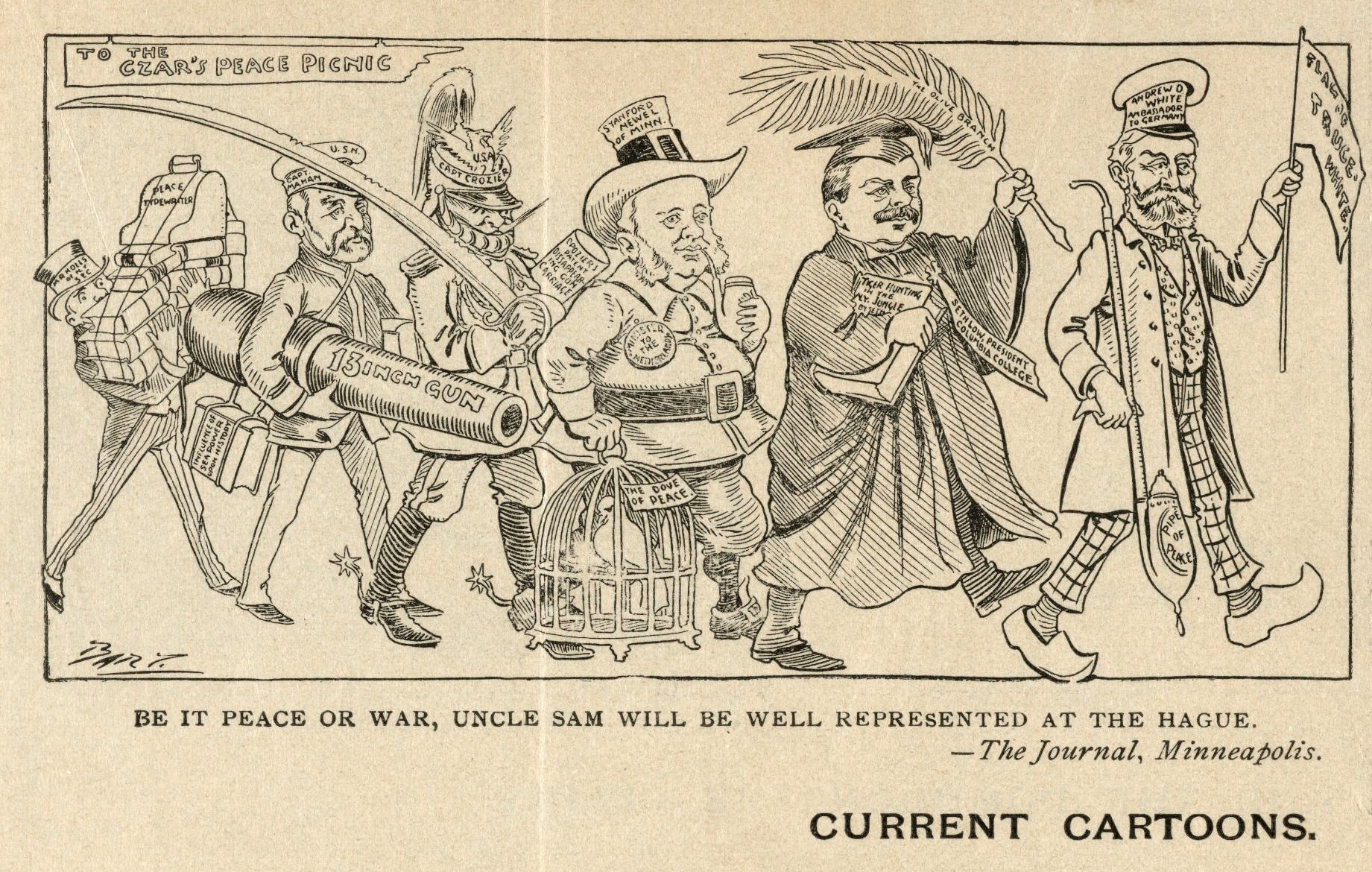 "Be it peace or war, Uncle Sam will be well represented at the Hague." Cartoon referencing the American delegation to the First International Peace Conference at the Hague, 1899. From The Journal, Minneapolis. MS Am 1308 (362), Frederick William Holls Papers, Houghton Library, Harvard University May 17, 1899, the American Commission to the Peace Conference of The Hague met for the first time at the house of the American Minister, The Honorable Stanford Newel, the members in the order named in the instructions from the State Department being Andrew D. White, Seth Low, Stanford Newel, Captain Alfred T. Mahan of the United States Navy, Captain William Crozier of the United States Army, and Frederick W. Holls, Secretary. Mr. White.